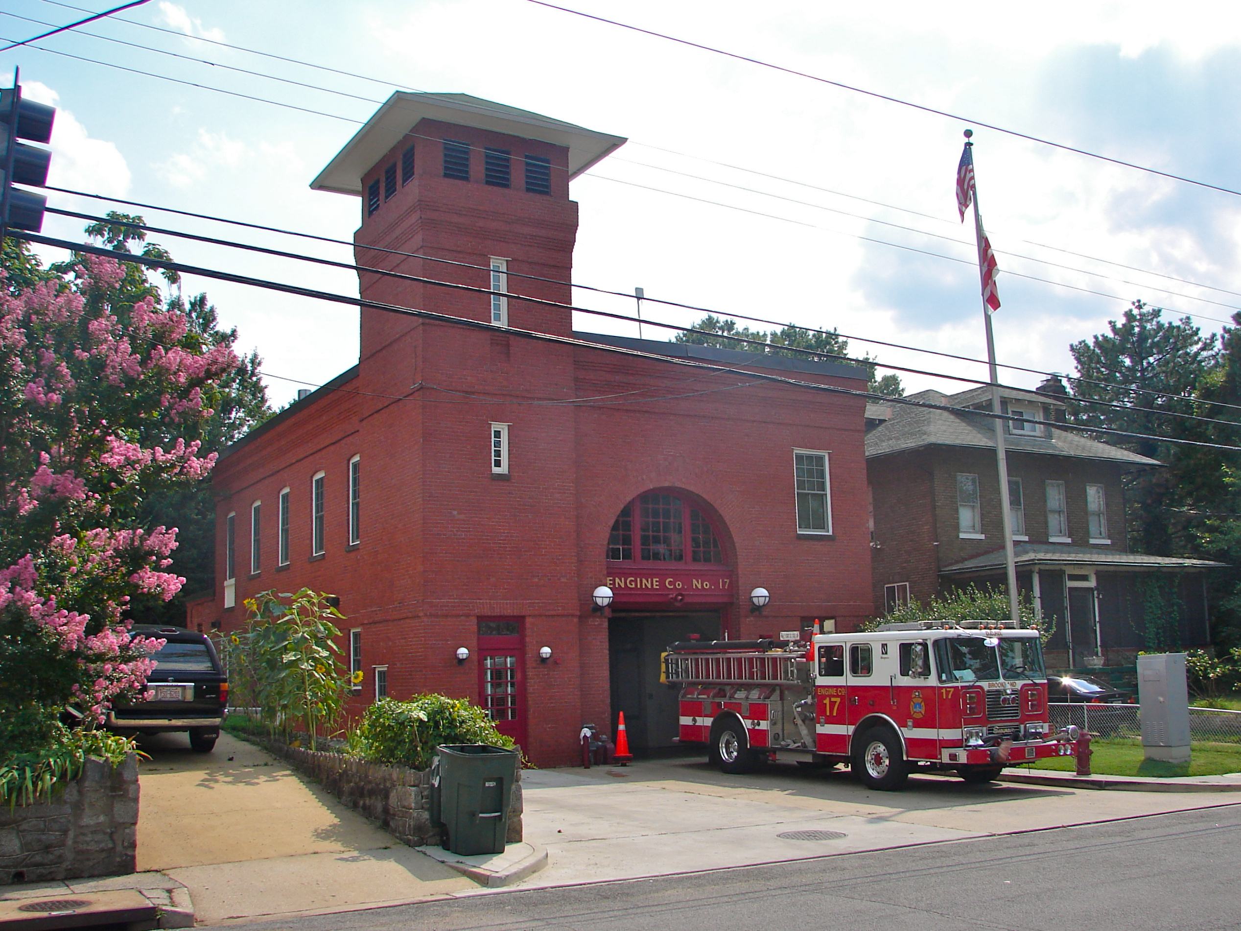 Engine Company 17 on the NRHP since June 6, 2007. At 1227 Monroe St. NE, Washington, DC. Part of the NRHP multiple property submission on DC firehouses.